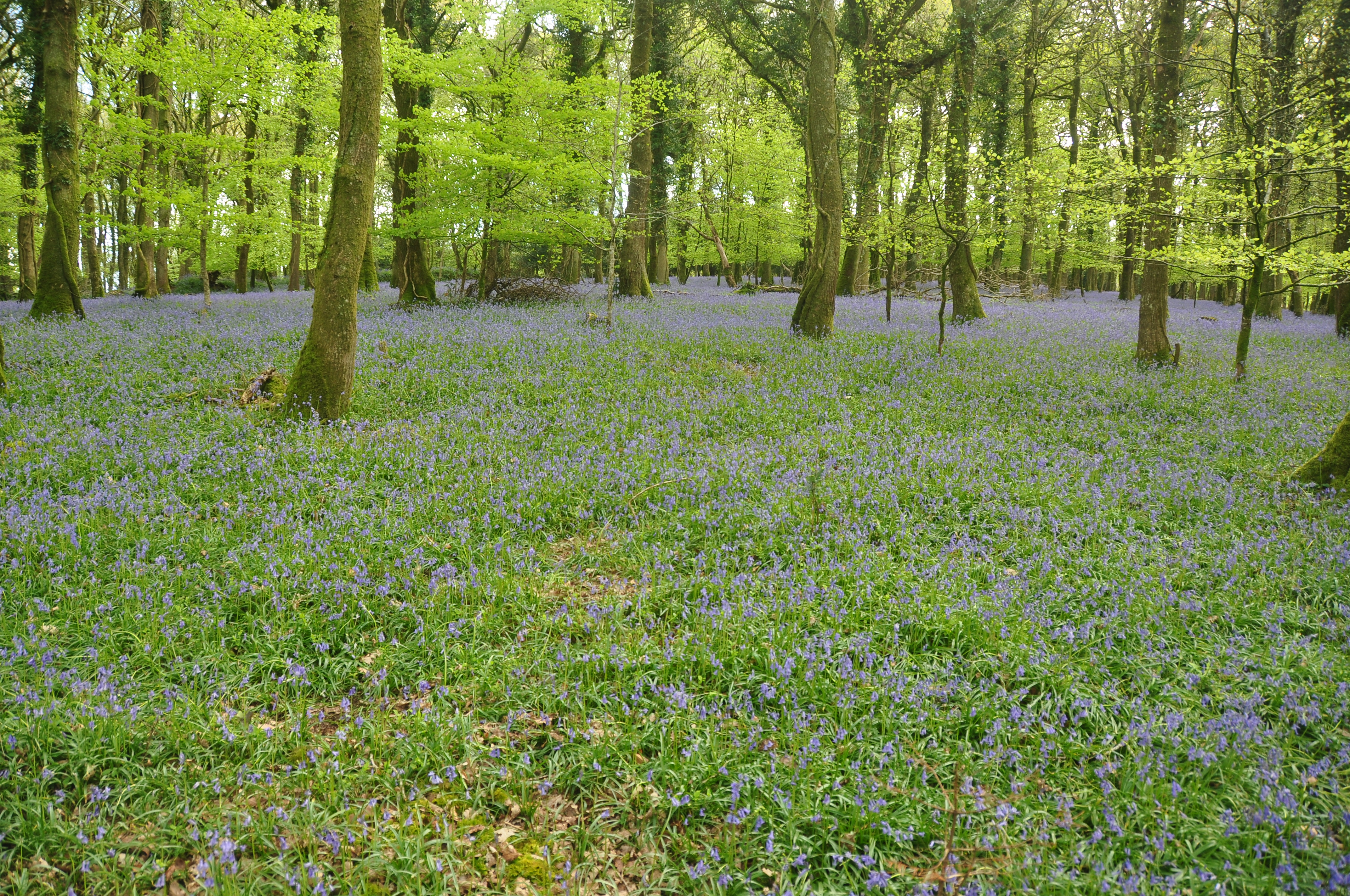 Bluebells in Plymbridge Woods